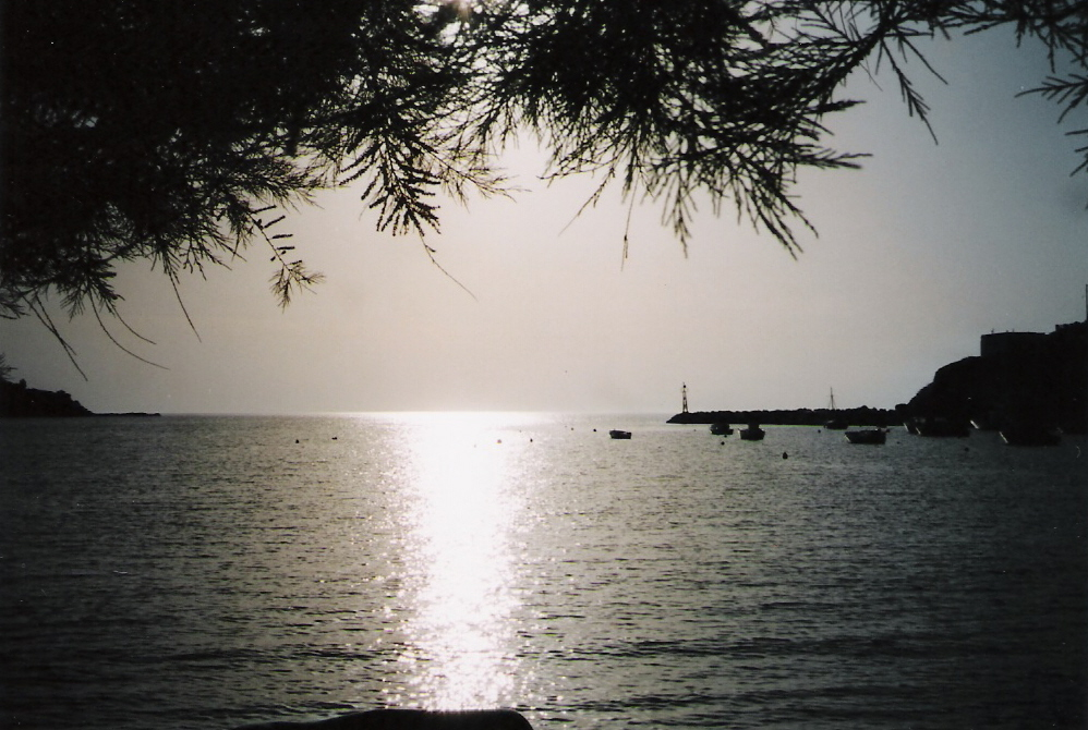 Sundown at Kini Syros (Greece)